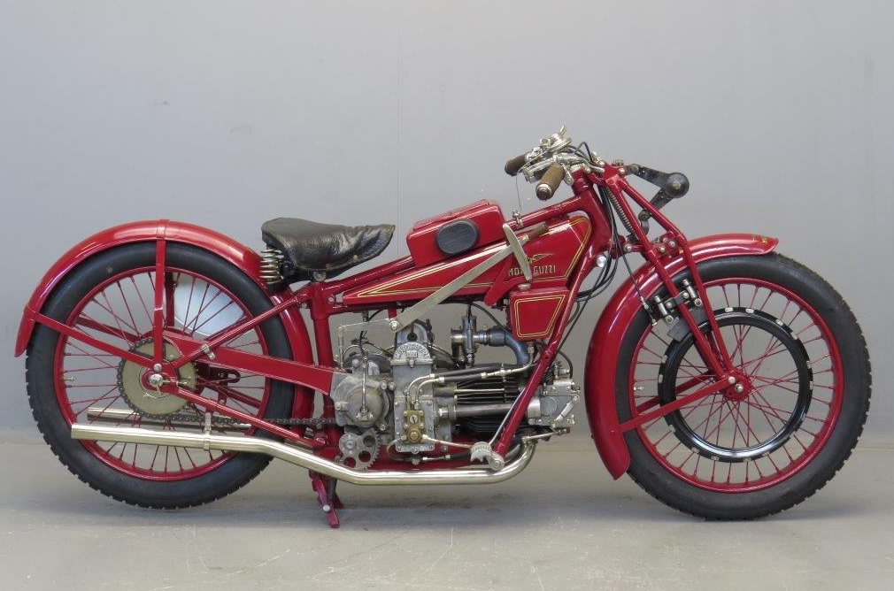 Moto Guzzi 1925 Model C4V 498 cc four valve ohc production racer frame # 2008 engine # C104